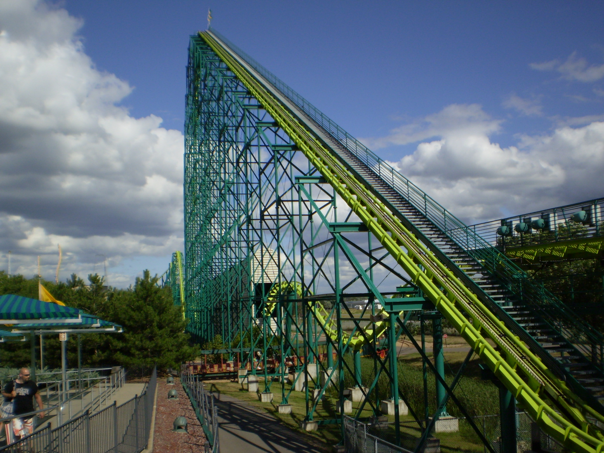 Wild Thing at Valleyfair Amusement Park